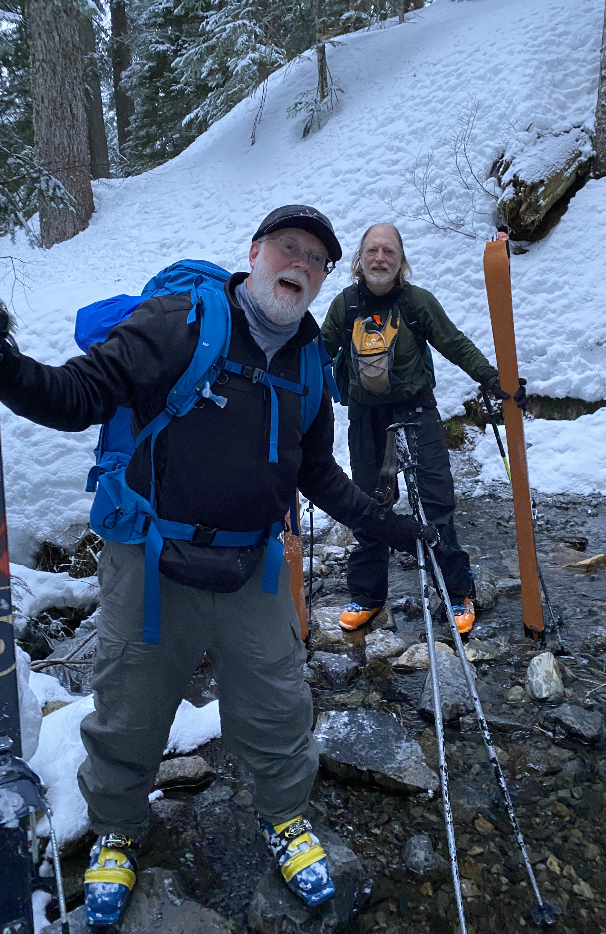 Two alpine touring skiers crossing a stream between Snoqualmie Pass and Stampede Pass